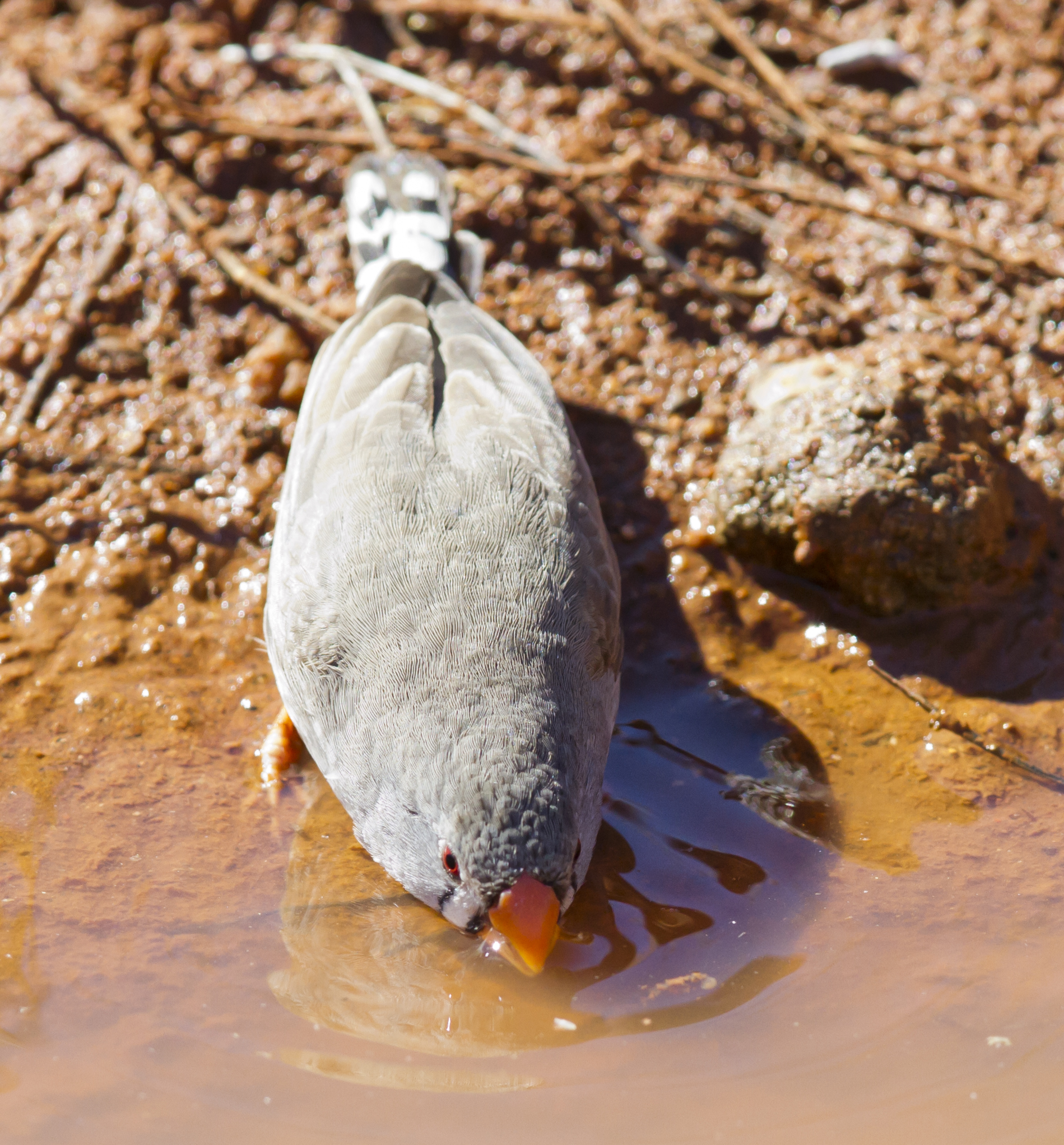 A female Zebra Finch in Karratha, Pilbara, Western Australia, Australia.